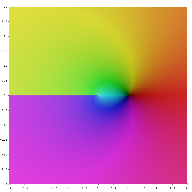 function Log[z] in the complex plane